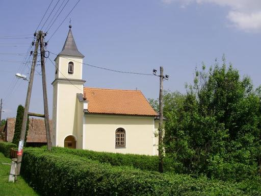 Church in Croatia